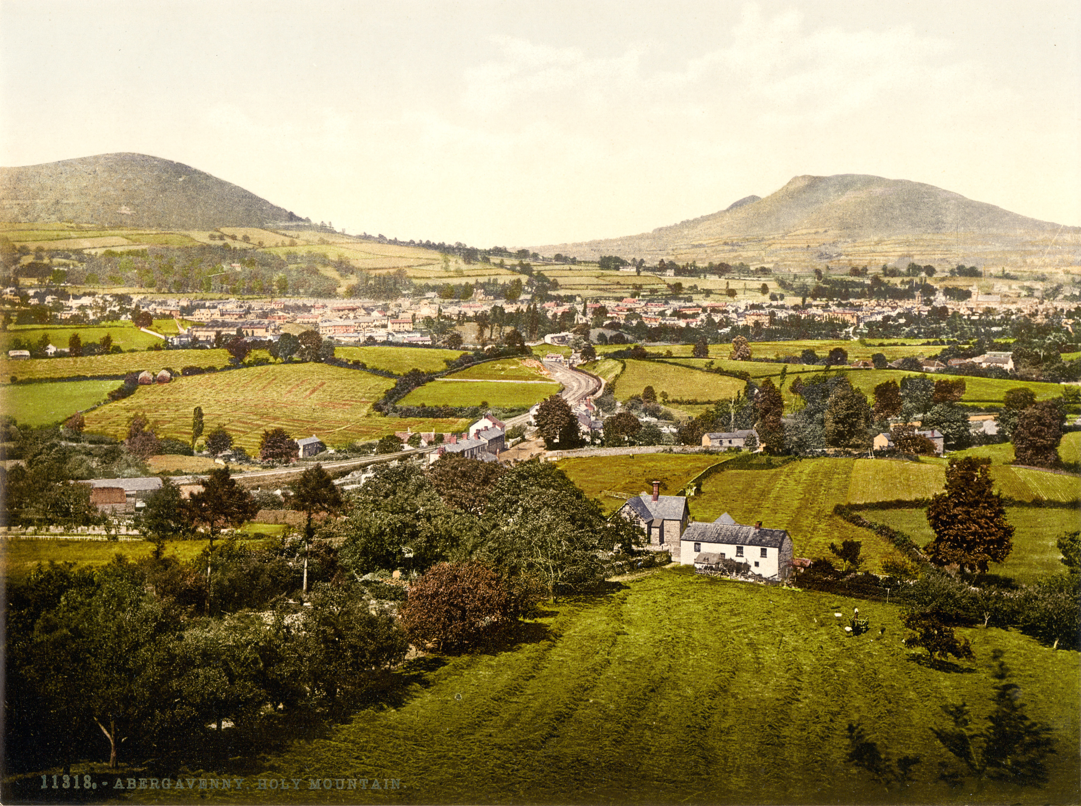 Abergravenny and Holy Mountain, Abergravenny [i.e., Abergavenny], Wales. 1 photomechanical print : photochrom, color.